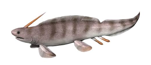 Cropped image of taxon in file name